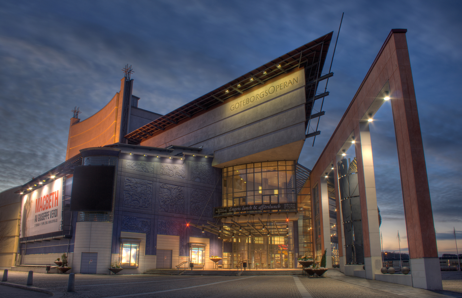 the Gothenburg Opera) is an opera house in Gothenburg, Sweden. The construction of the opera started in 1989 and it was opened in 1994. The building located on the southern riverbank is one of the most notable landmarks in Gothenburg.